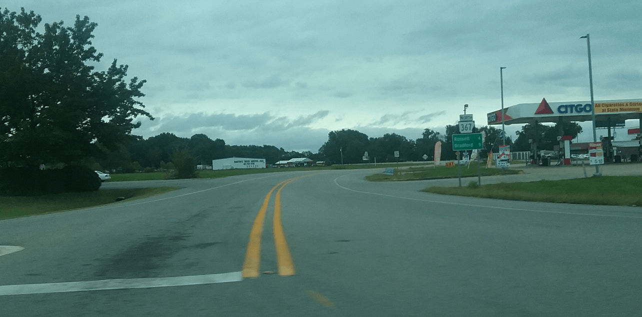 Arkansas Highway 367 at the junction of US 167 in Bald Knob, Arkansas. Photo taken on 12/9/2017